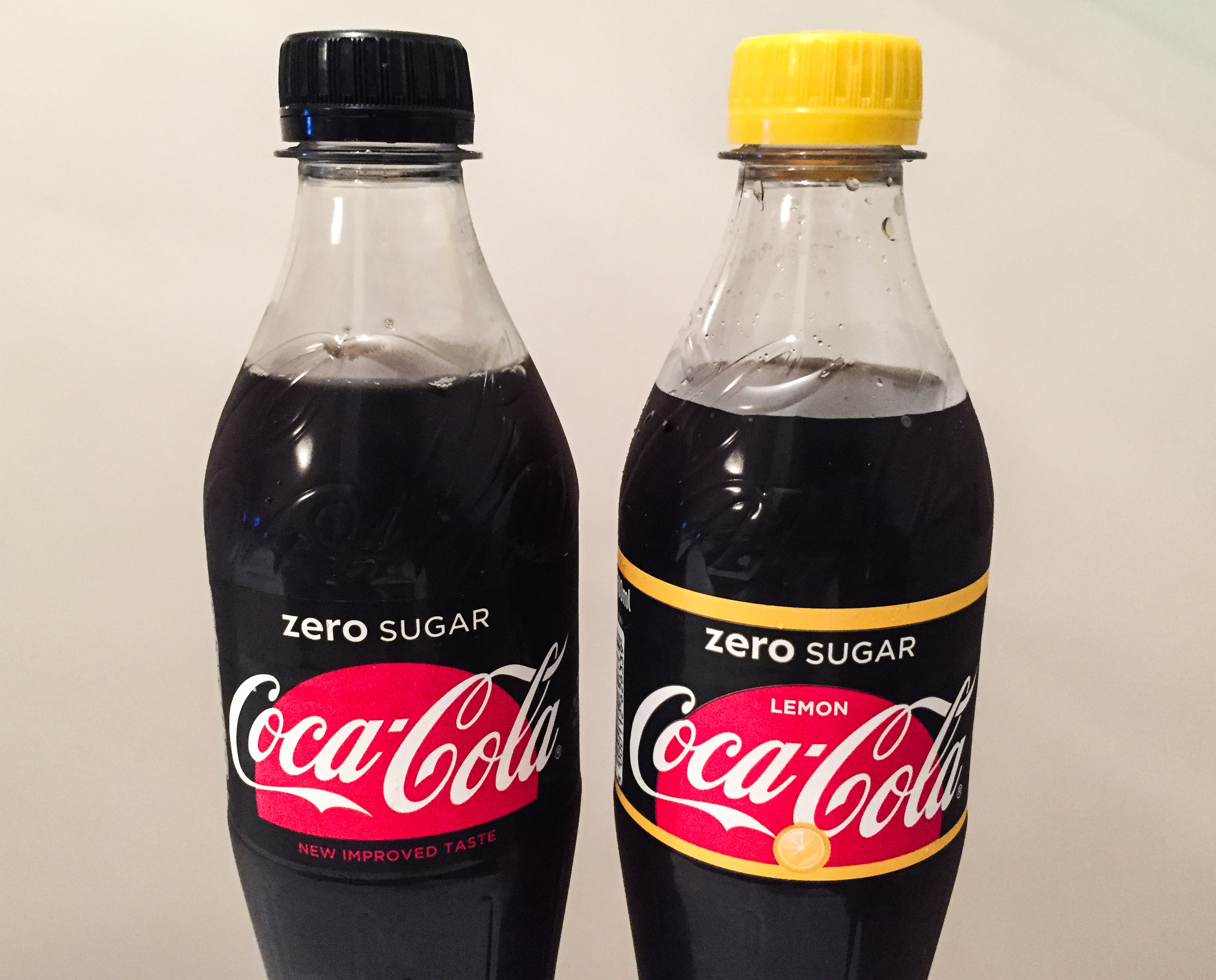 A bottle of Coca-Cola Zero Sugar and a bottle of Coca-Cola Zero Sugar Lemon